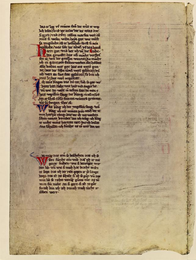 Codex Manesse, fol. 44v, Count Wernher von Homberg / Werner von Hohenberg